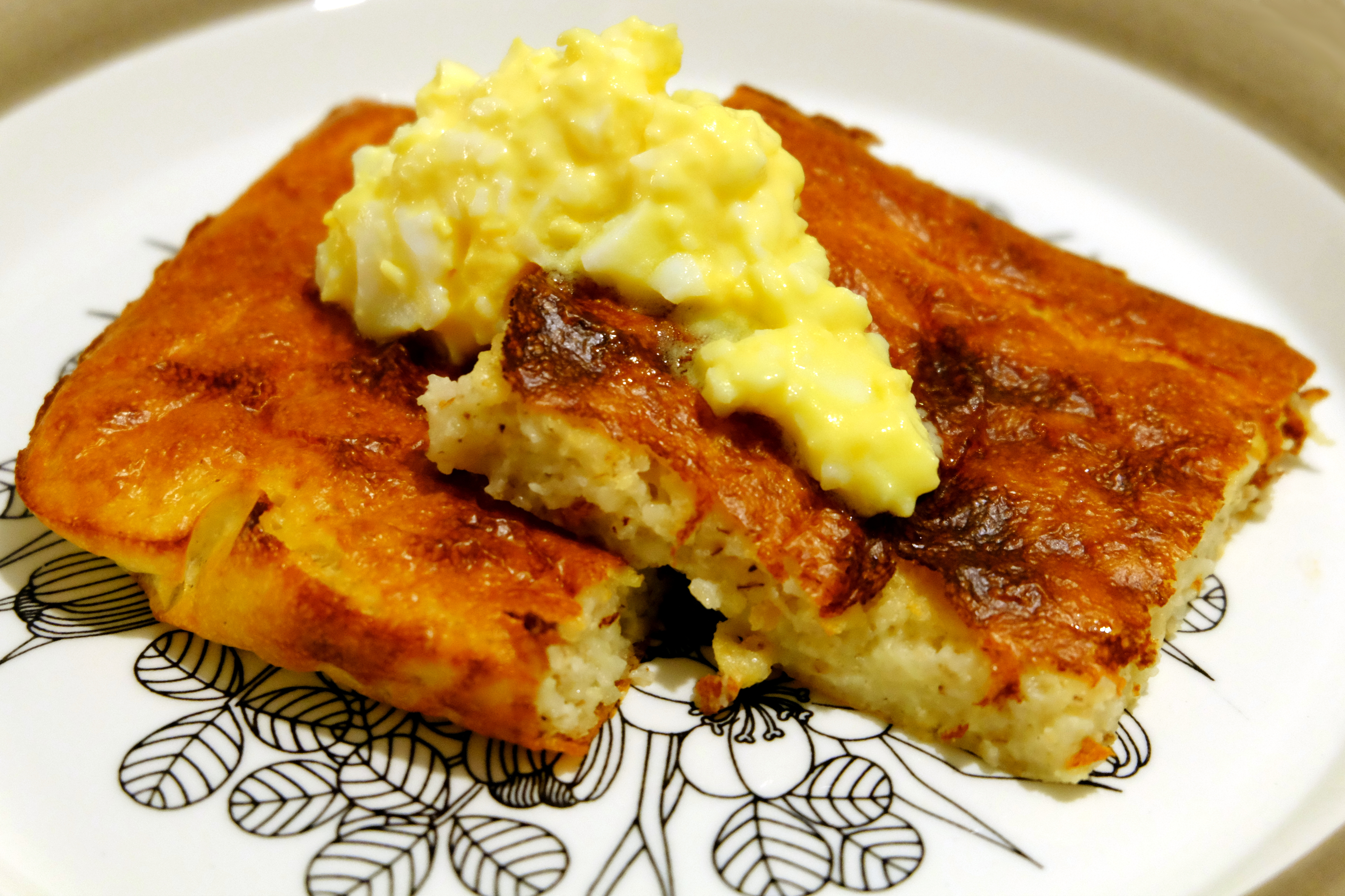 Rieska are unleavened barley-based flat breads typical to Finnish cuisine. They are made similarly to crispbreads, but are not dried into a crisp. This here is a Savonian-style barley rieska served with munavoi, a spread made of butter and hard boiled eggs.